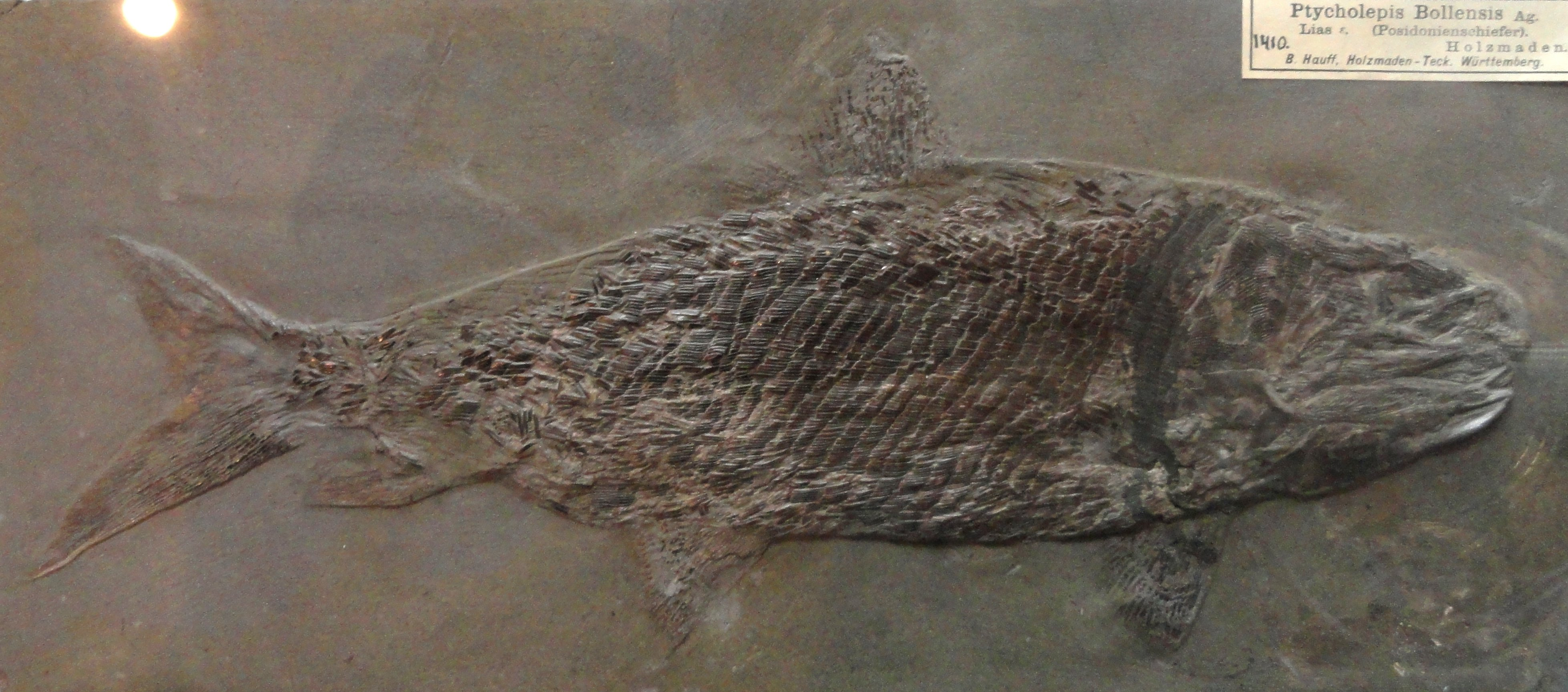 Crop of file in filename